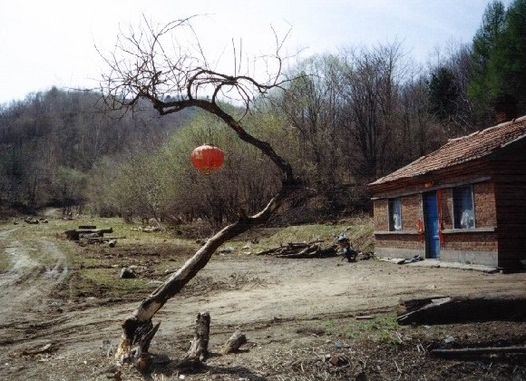 Shuangyashan - Countryside